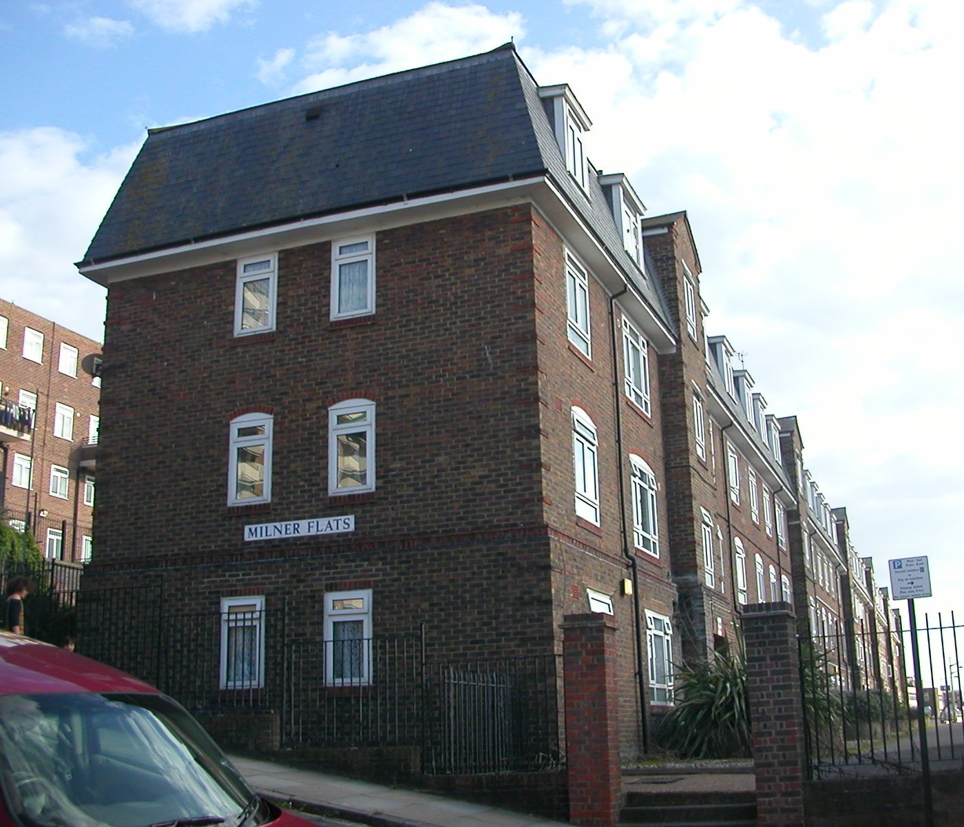 Milner Flats in the Carlton Hill area of the city of Brighton and Hove, England. Built in 1934 as part of an extensive slum clearance programme in this inner-city area.